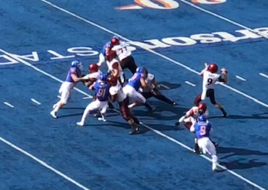 San Diego State on offense against Boise State during their game on October 6, 2018 at Albertsons Stadium in Boise, Idaho.